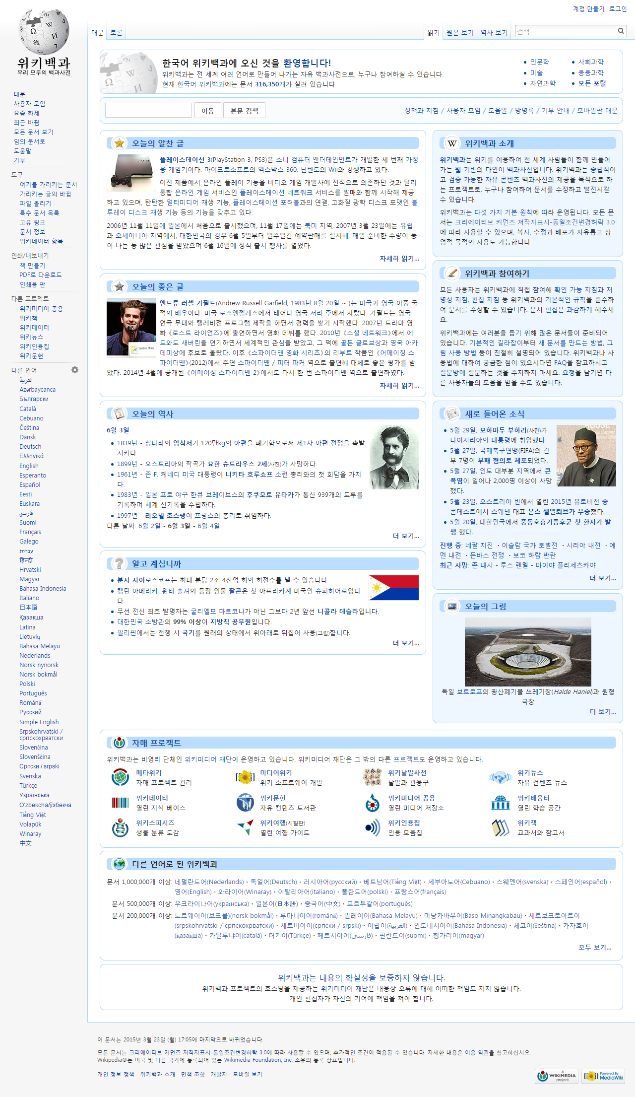 Main page of Korean Wikipedia, June 3rd, 2015